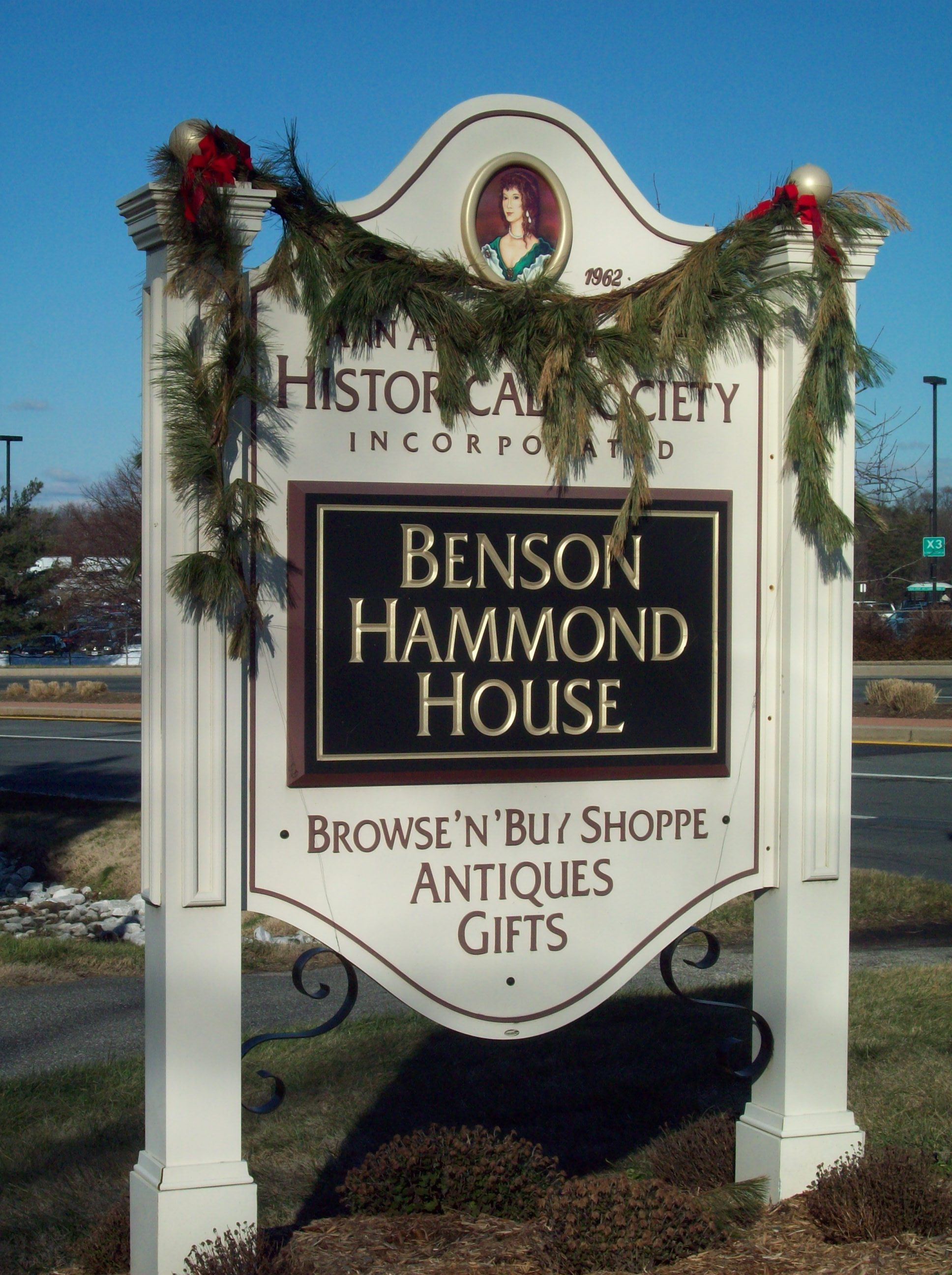 Benson-Hammond House Sign, December 2009